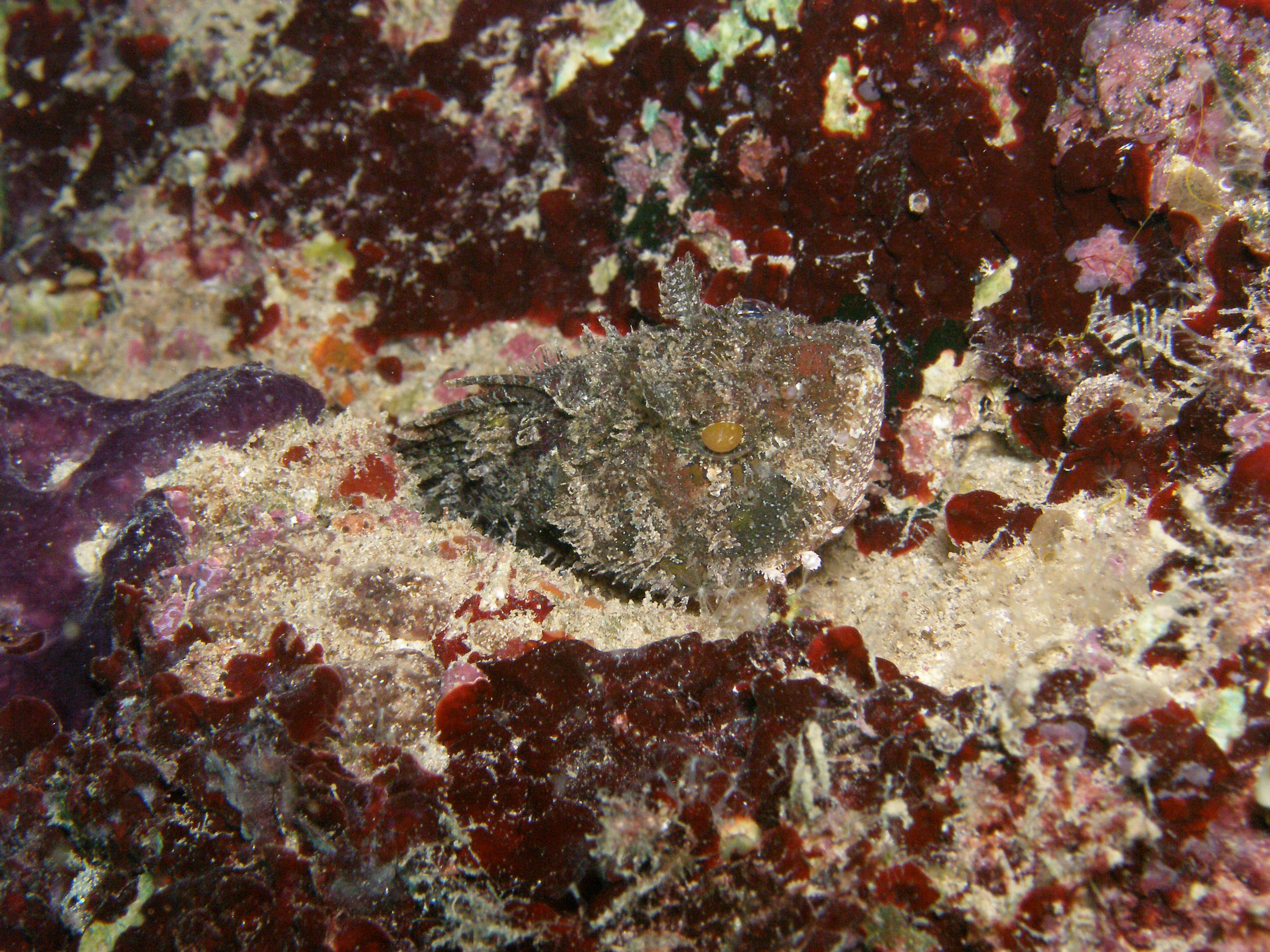 Scorpaena porcus. Monopoli (BA), Italy.